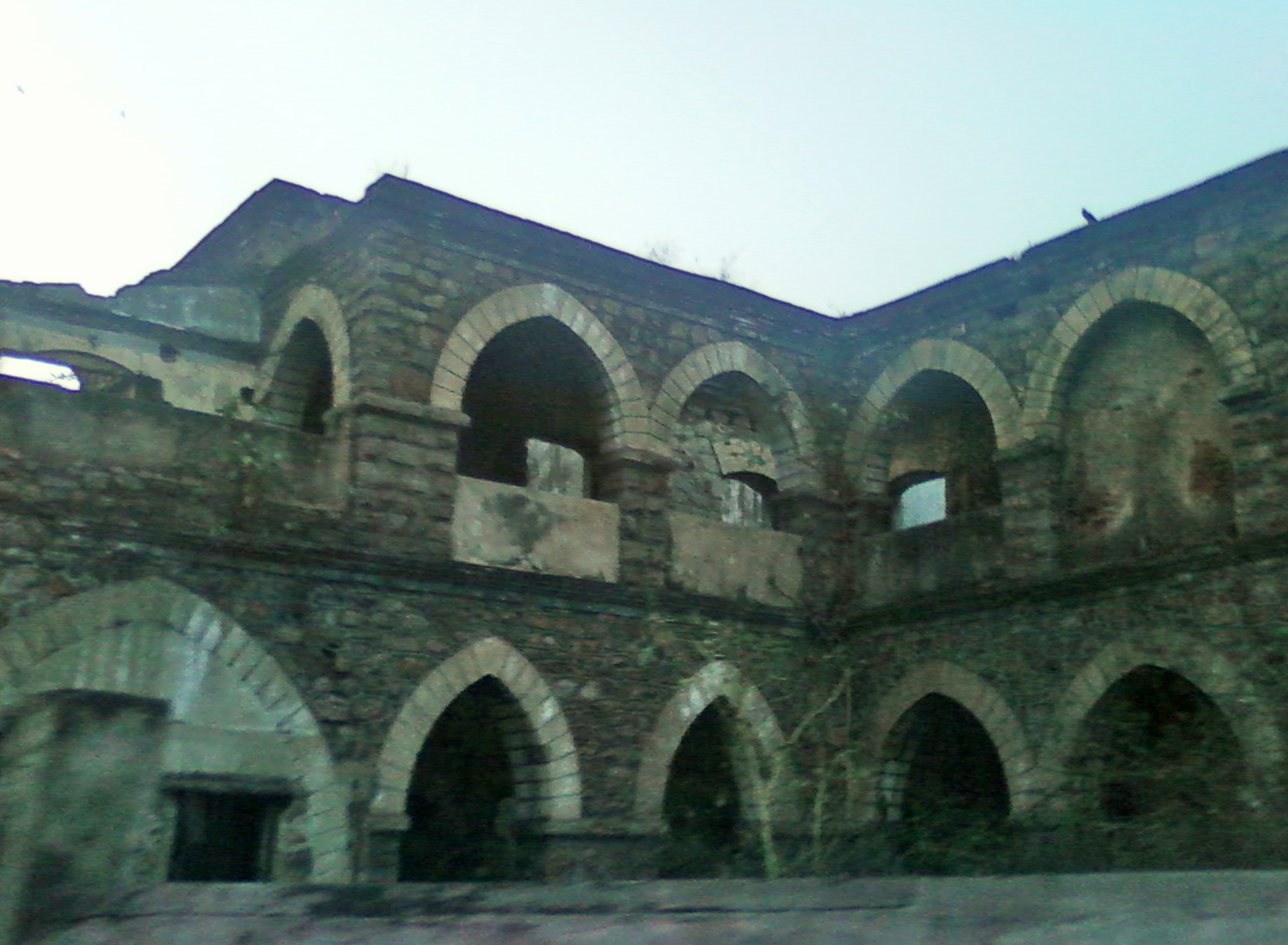 Old British Customs house in Vizag Port area (Now demolished)